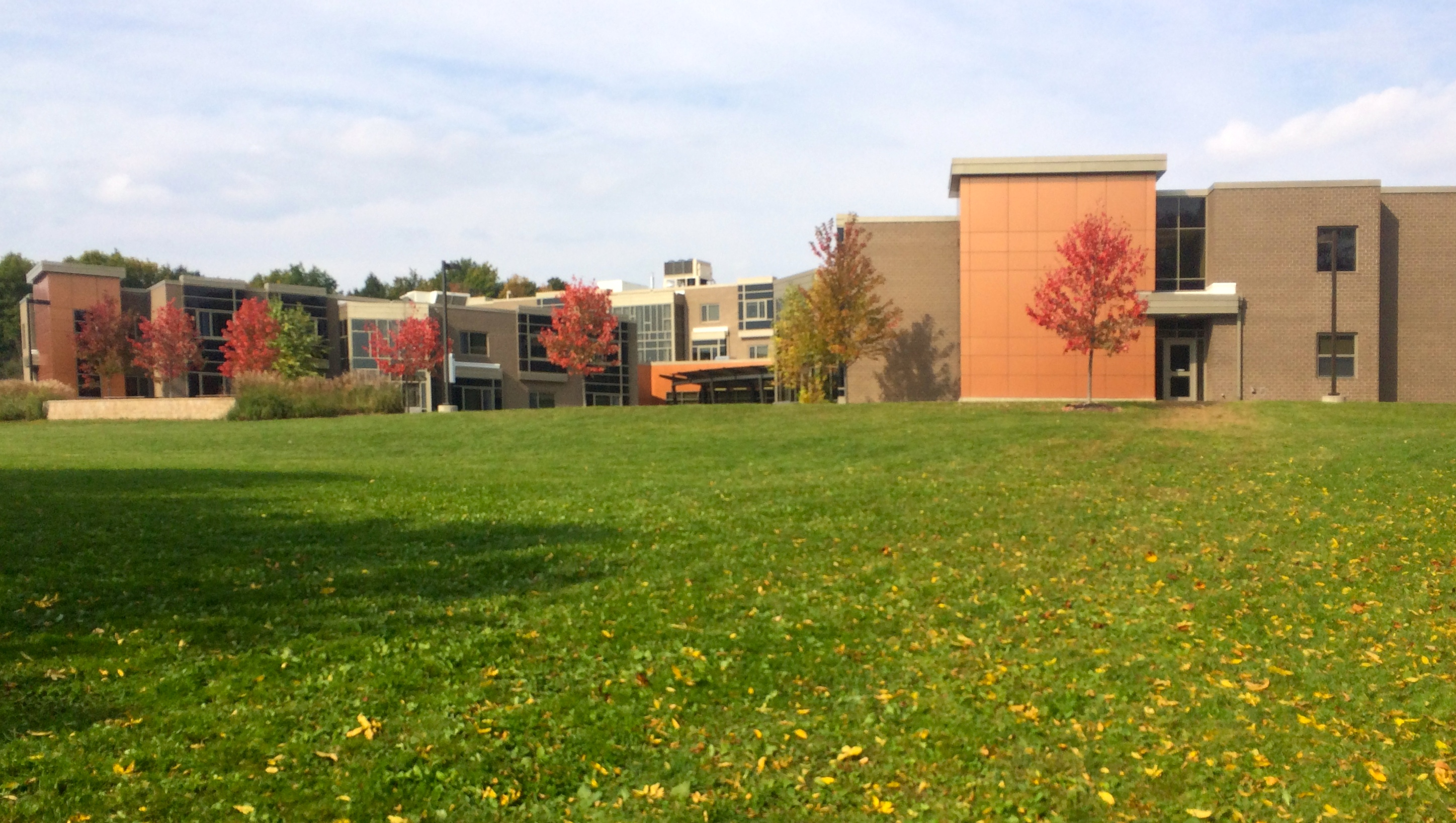 Oriskany Hall, SUNY Polytechnic Institute